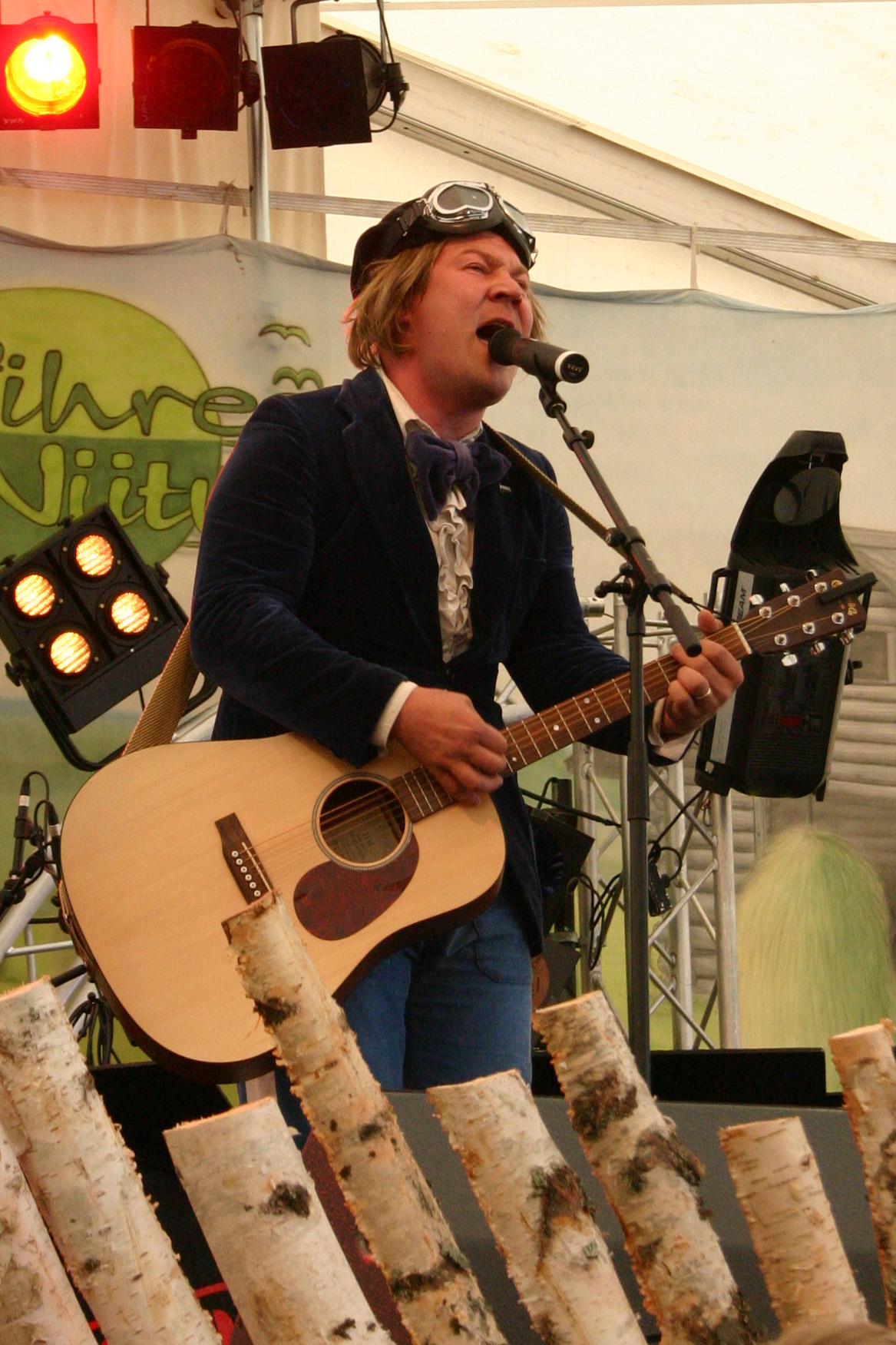 Jamppa Kääriäinen, the singer of Halavatun papat in Vihreät Niityt music festival in the summer 2004.